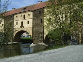 Gate called Stadtbrille in Amberg, river Vils (Naab), Upper Palatinate, Germany